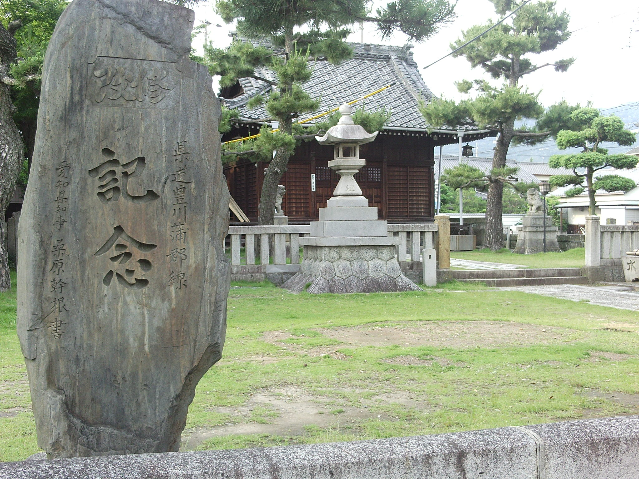 Road improvement monument of Aichi prefectural road No.368 in Honmachi-Akiba-shrine, Gamagori, Aichi.